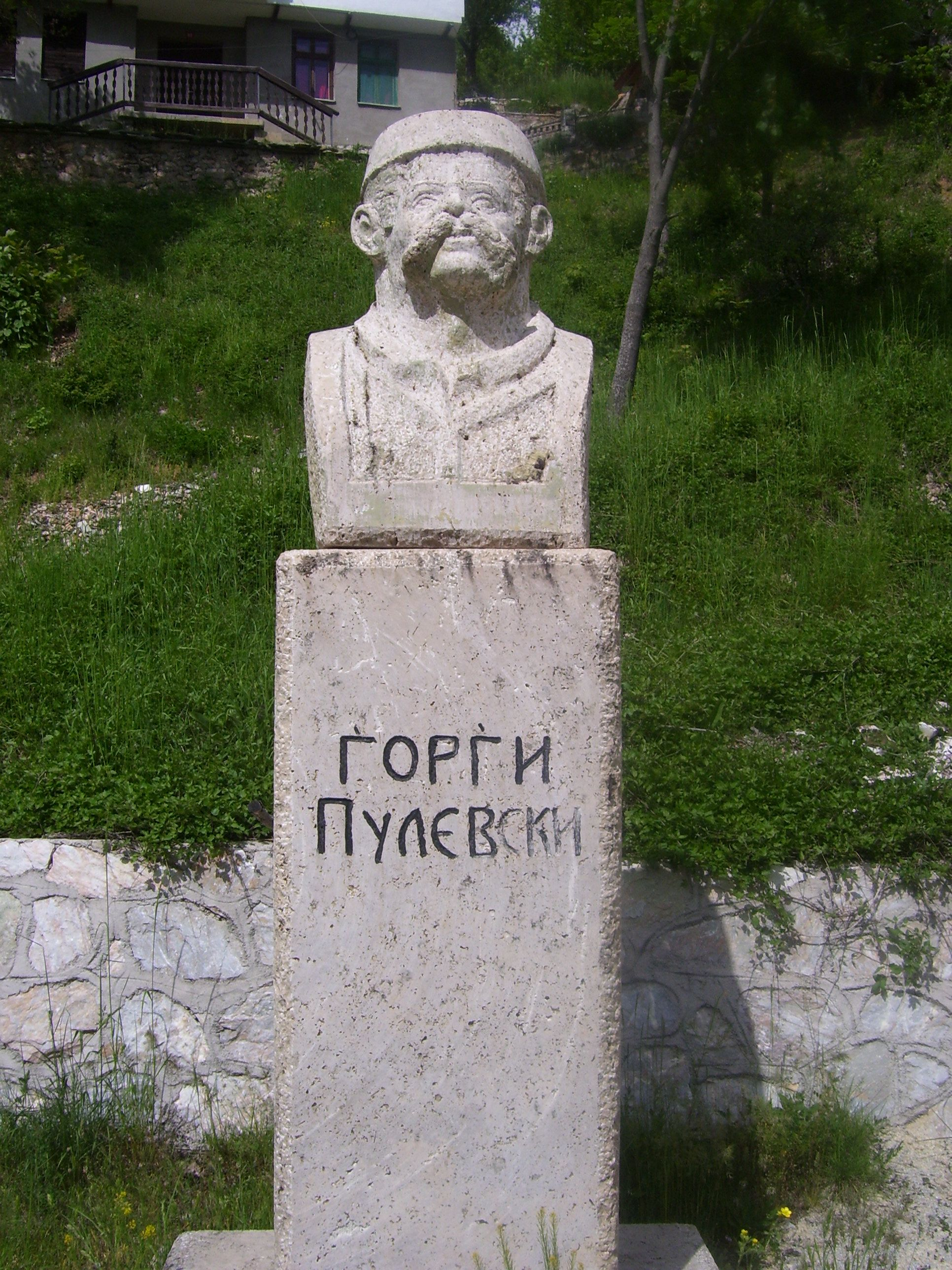 Bust of Gјorgјi Pulevski in the village of Galičnik, Republic of Macedonia.